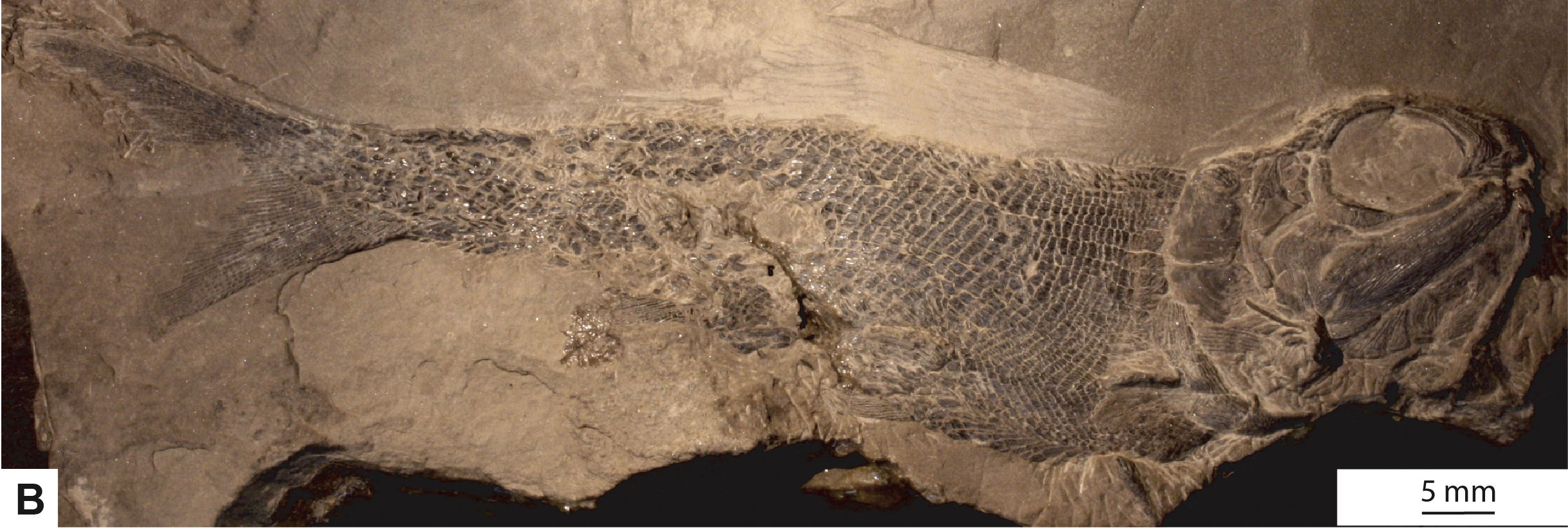 A new lower actinopterygian fish from the Upper Mississippian Bluefield Formation of West Virginia, USA